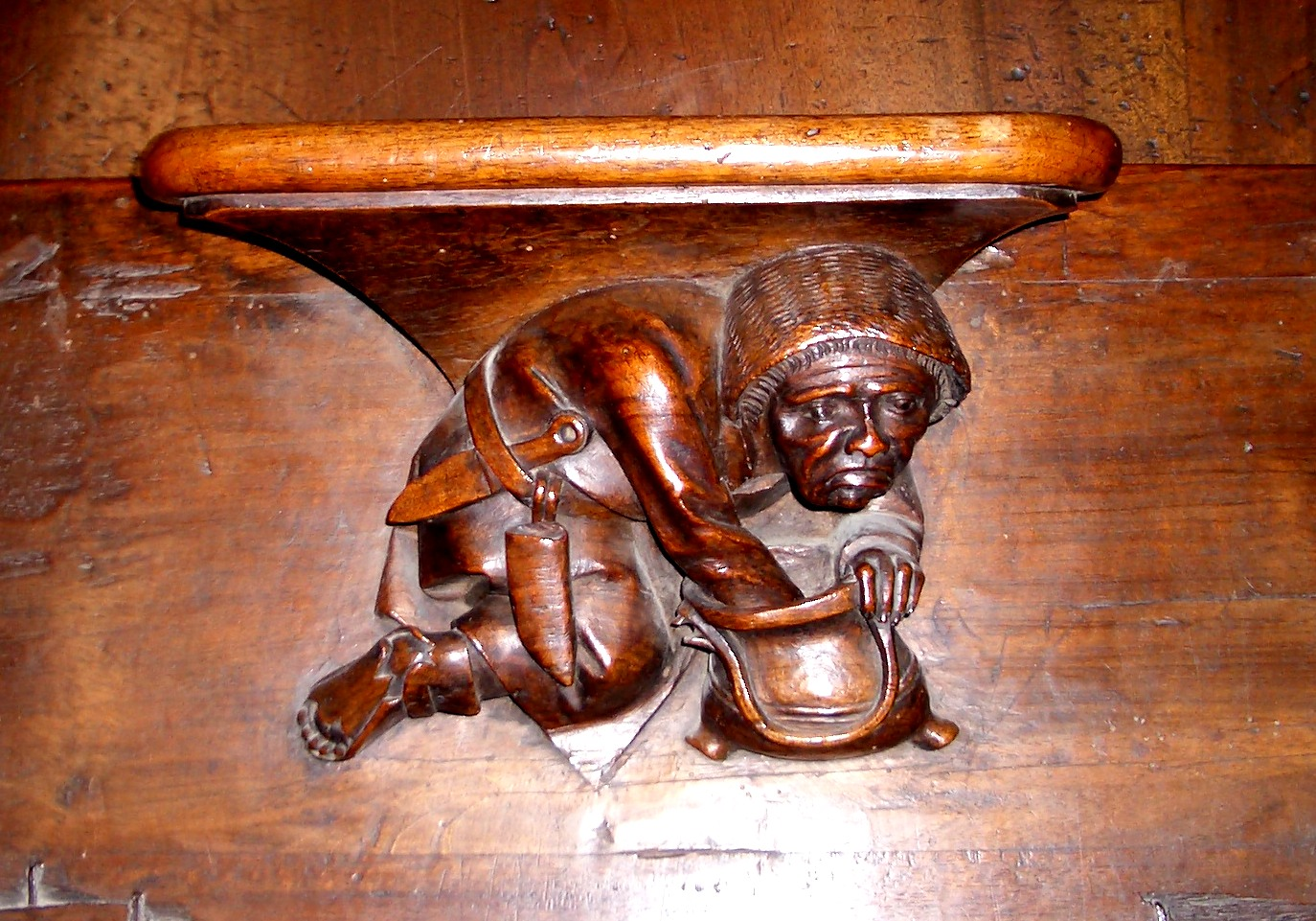 Aosta - Church of St. Orso, Choir stalls. Unknown master, wood, XV century.